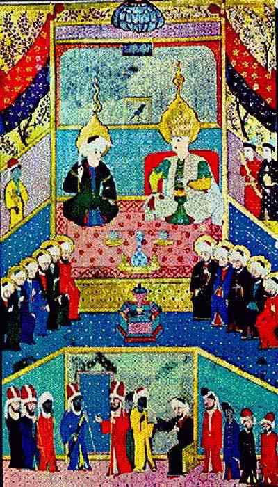 Joseph with his father Jacob and brothers in Egypt. Stories of Prophet Joseph are widely illustrated in the Islamic world. The prophet's adventures with his brothers and especially with Zoeyha have been a source of inspiration for many Islamic poets and artists. In a miniature in the Zubdat-al Tawarikh, Joseph is shown enthroned with his father Jacob and his brothers, after he succeeded to settle in Egypt in spite of all his adventures with his brothers. The story tells how upon Joseph's wish his brothers brought their father to Egypt and how his brothers had to ask him for food after the occurrence of the well known famine. Nevertheless, in the lower section of the miniature, several people, differently dressed, are shown waiting to get their share of the grain. The representation of this episode in Joseph's life has no counterpart in Islamic miniature painting. The Ottoman painter must have chosen this theme of the reunion of Joseph's family, because it was the most suitable for a courtly representation and therefore more appropriate for the pictorial taste of the period. Courtly representations and enthronement scenes were very common in sixteenth century Ottoman historical miniatures, and the artist applied the same composition scheme to his religious subject matter.